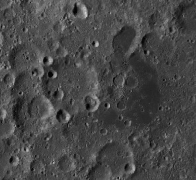 LRO-WAC image.Titius crater center left, Lacus Solitudinis center right, Bowditch lava-flooded crater upper right